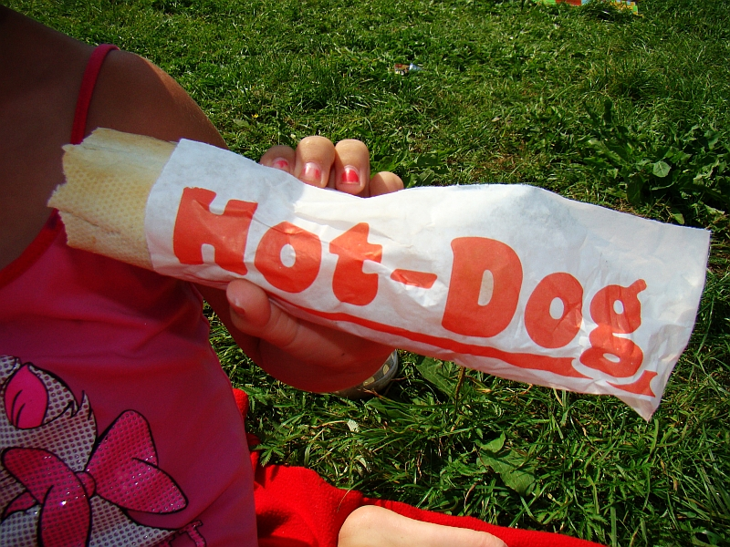 Hot Dog